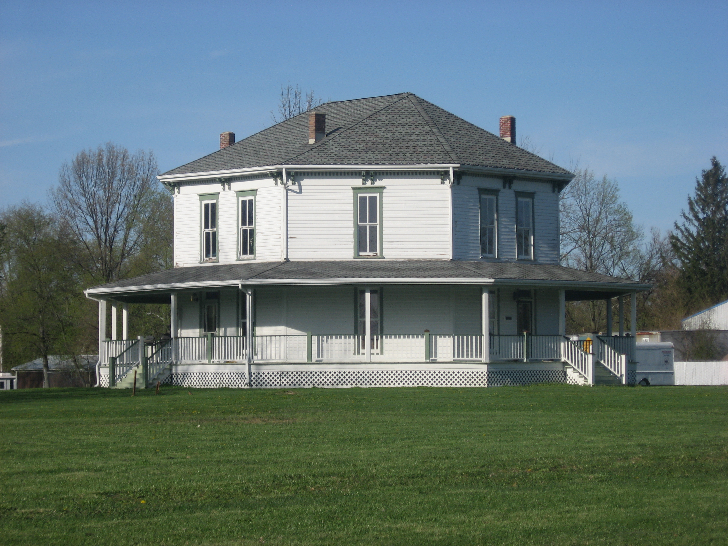 Western, southwestern, and southern sides of the Jane Ross Reeves Octagon House, located at 400 S. Railroad Street in Shirley, Indiana, United States. Built in 1879, it is listed on the National Register of Historic Places.